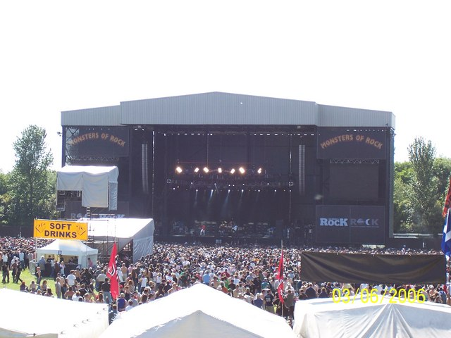 A concert in progress on en:3 June en:2006 at the National Bowl in Milton Keynes, England.